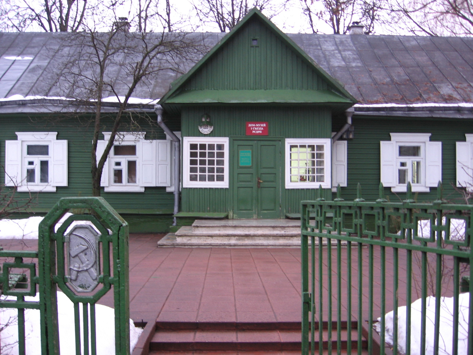 House in Minsk, where the 1st Congress of the Russian Social Democratic Labour Party was held in 1898. It was destroyed by the Nazis during the Great Patriotic War and completely reconstructed after the war. Now there is a museum there.